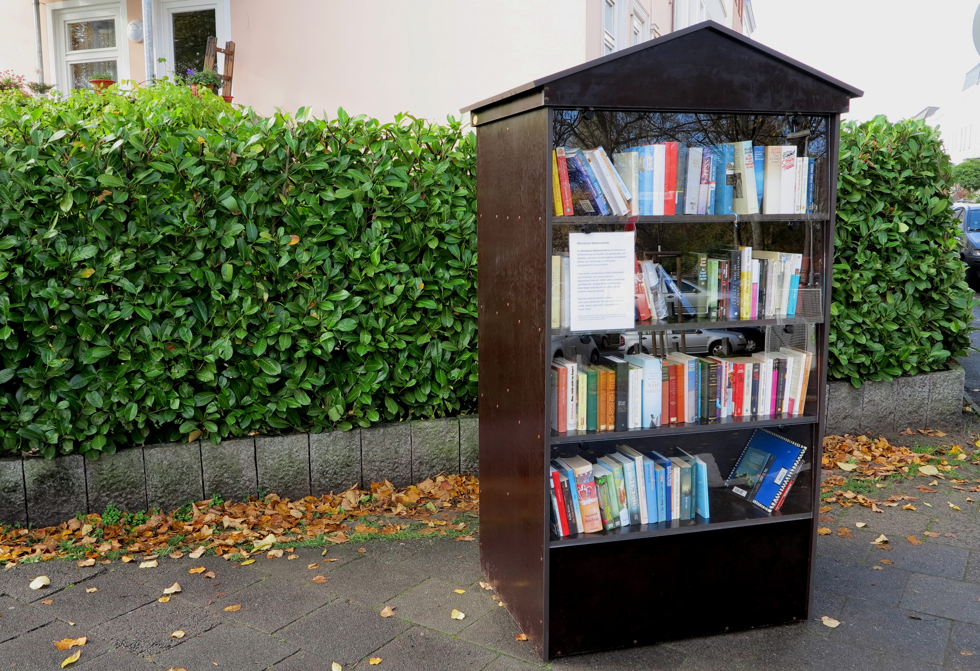 Public bookcase in Lübeck- St. Jürgen, Wakenitzufer/Pelzerstraße